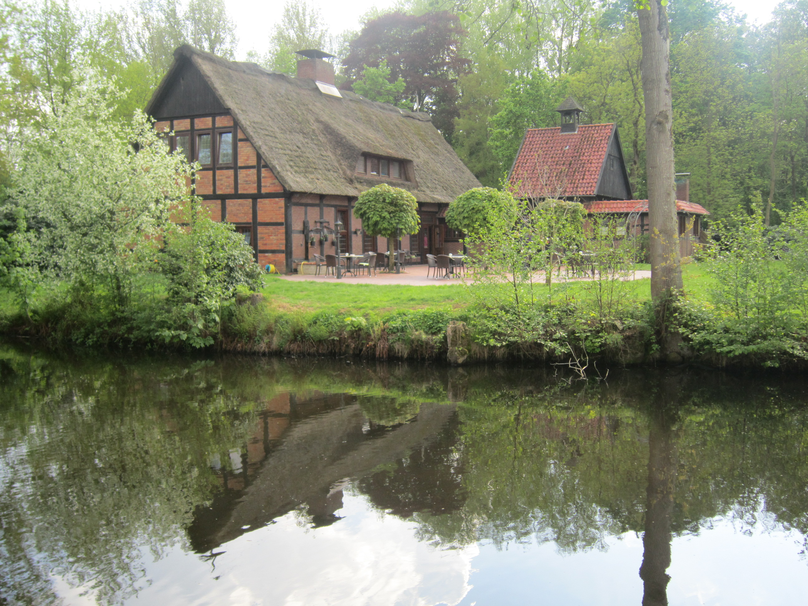 Stedingsmühlen manor near Molbergen (Landkreis Cloppenburg, Lower Saxony)